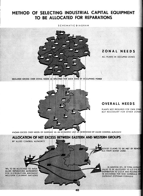 This page describes the policy of allocation of German industry (factories etc) that were dismantled in the years 1945–1951 as war reparations under the "Level of Industry" plans designed to lower German standards of living and to "forever" deprive her of the industrial capacity to wage war.